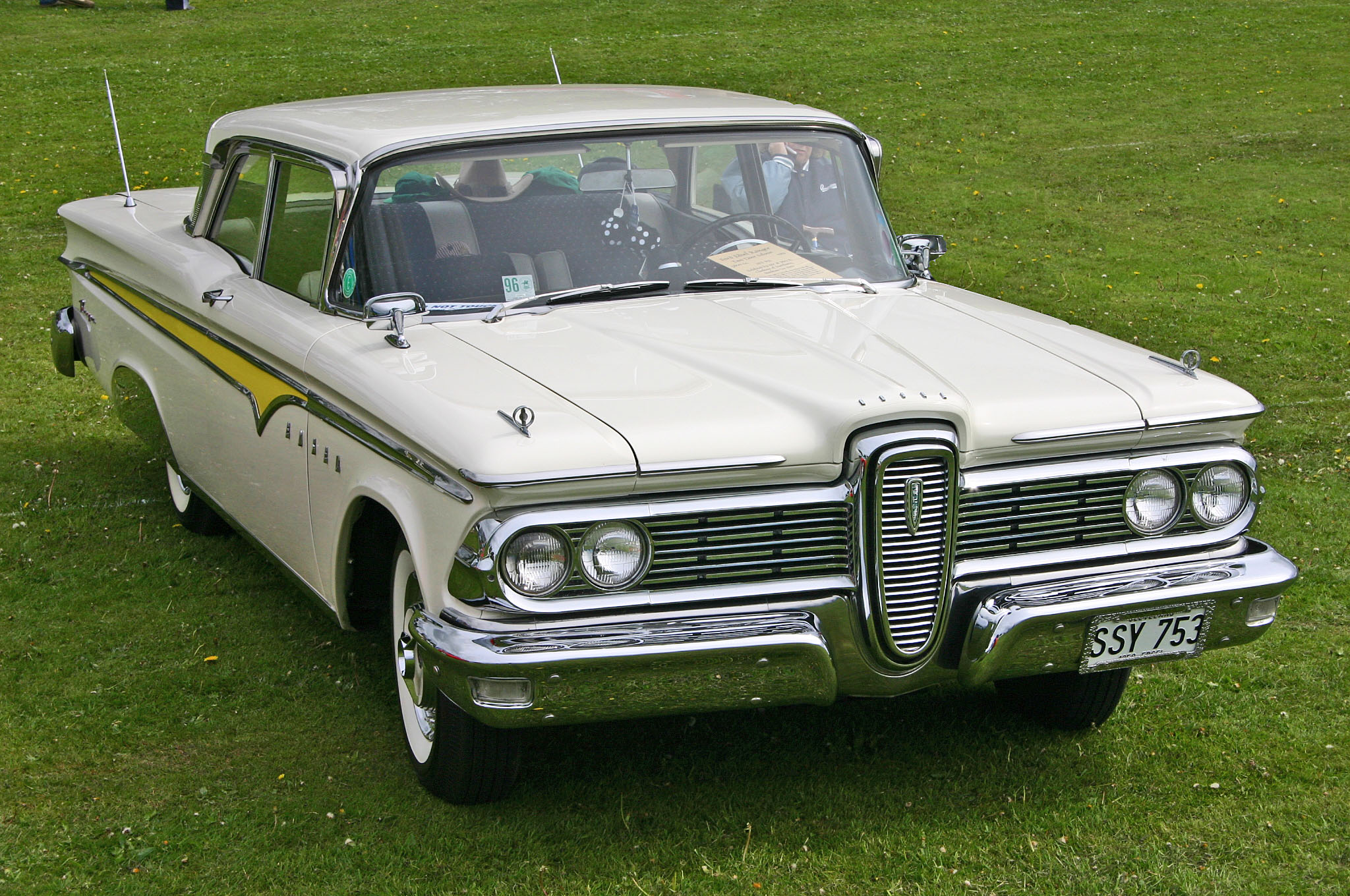 Edsel Ranger 2door Hardtop 1959